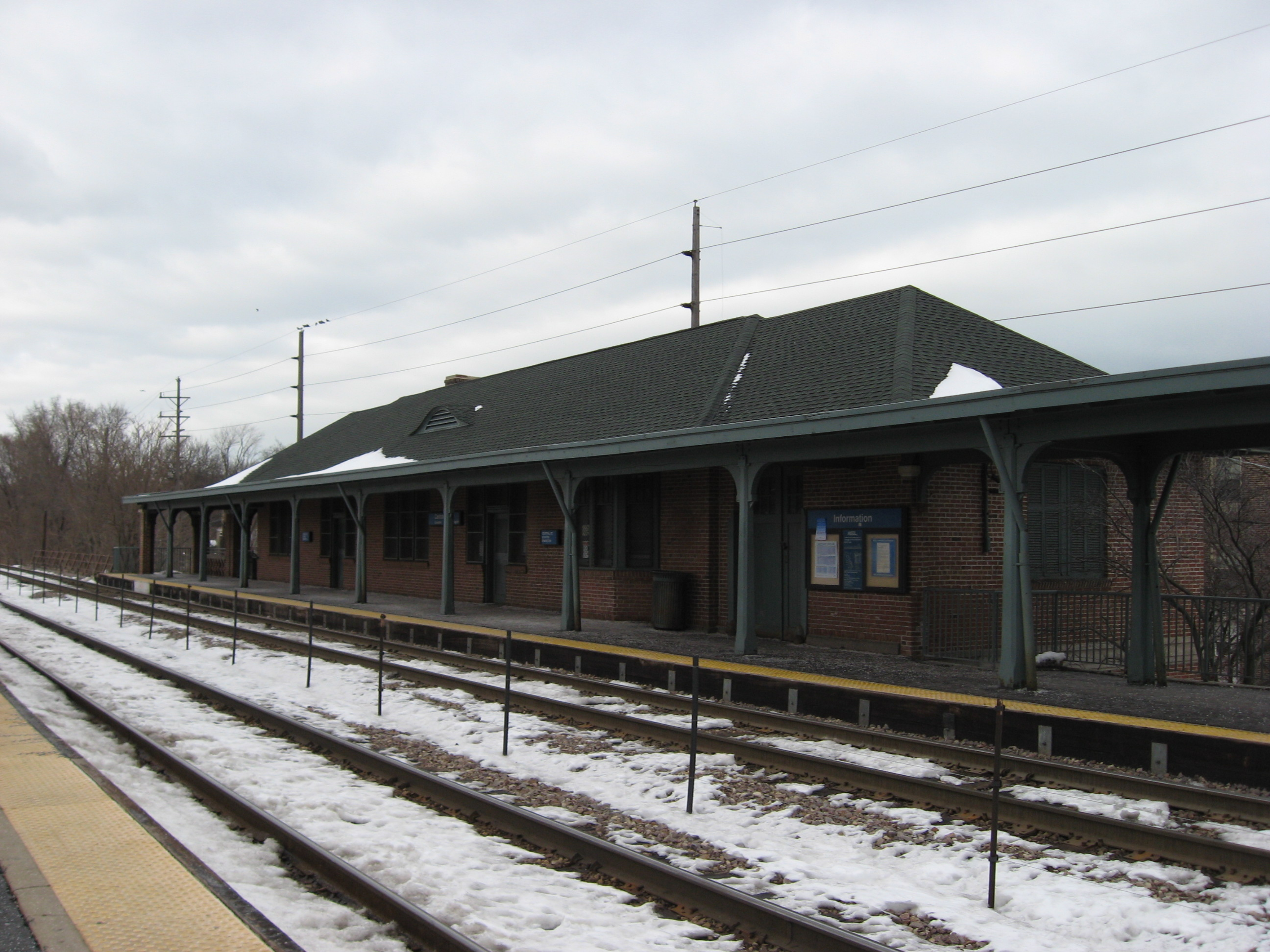 1826 Central St Evanston, IL 60201 Metra Union Pacific North Line Zone C